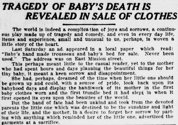 Article from The Spokane press. (Spokane, Wash.) 1902-1939, May 16, 1910, Page 6. And relevant to the article For sale: baby shoes. Text reads as follows: TRAGEDY OF BABY'S DEATH IS REVEALED IN SALE OF CLOTHES The world is indeed a complication of joys and sorrows, a continuous play made up of tragedy and comedy, and even in every day life, items and experience, small and unusual to us, perhaps, is woven a little story of the heart. Last Saturday an ad. appeared in a local paper which read: "Baby's hand made trousseau and baby's bed for sale. Never been used." The address was on East Mission street. This perhaps meant little to the casual reader, yet to the mother who had spent hours and days planning the beautiful things for her tiny baby, it meant a keen sorrow and disappointment. She had, perhaps, dreamed of the time when her little one should be grown up and could, with a source of pride, look back upon its babyhood days and display the handiwork of its mother in the first baby clothes worn and the first trundle bed it had slept in when it first opened its eyes upon the beauties of the world. But the hand of fate had been unkind and took from the devoted parents the little one which was destined to be the sunshine and light of their life, and the mother, in a desire to forget her sorrow by parting with anything which reminded her of the little one, advertised the garments at a sacrifice.